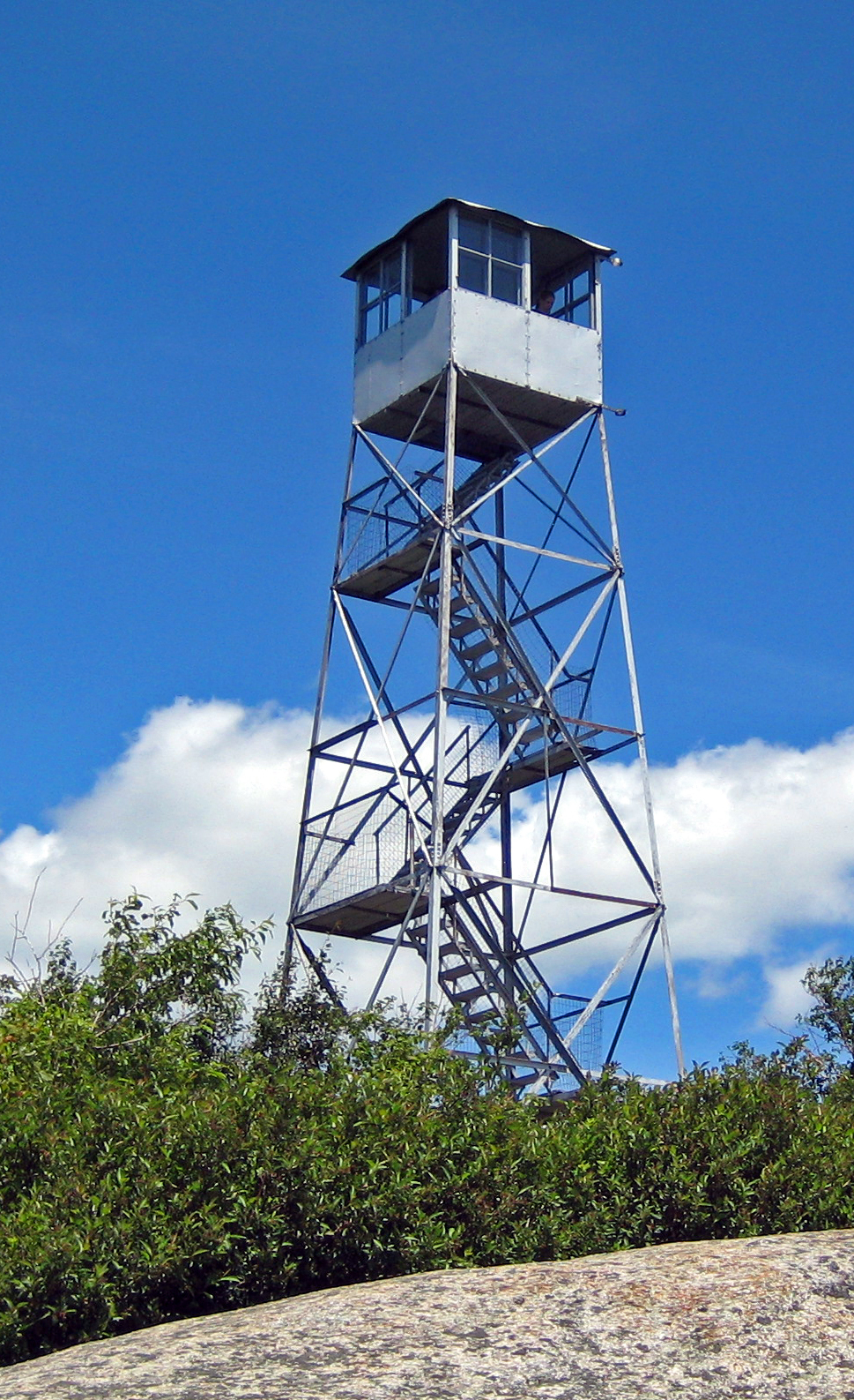 Former fire tower on Poke-O-Moonshine Mountain, Chesterfield, NY, USA